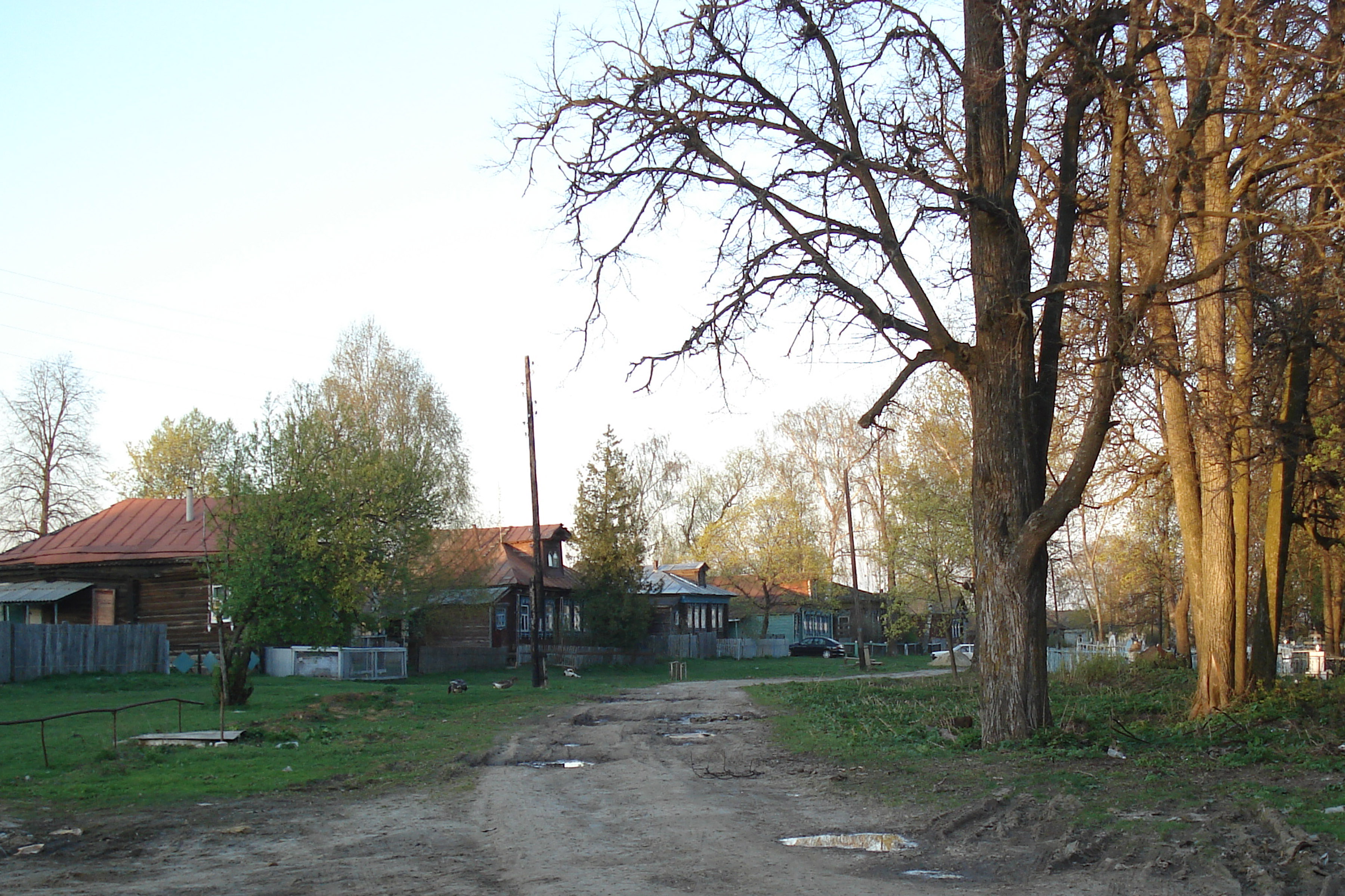 The «main street» of Bolshoye Zagarino. Nizhegorodskaya oblast. Russia.